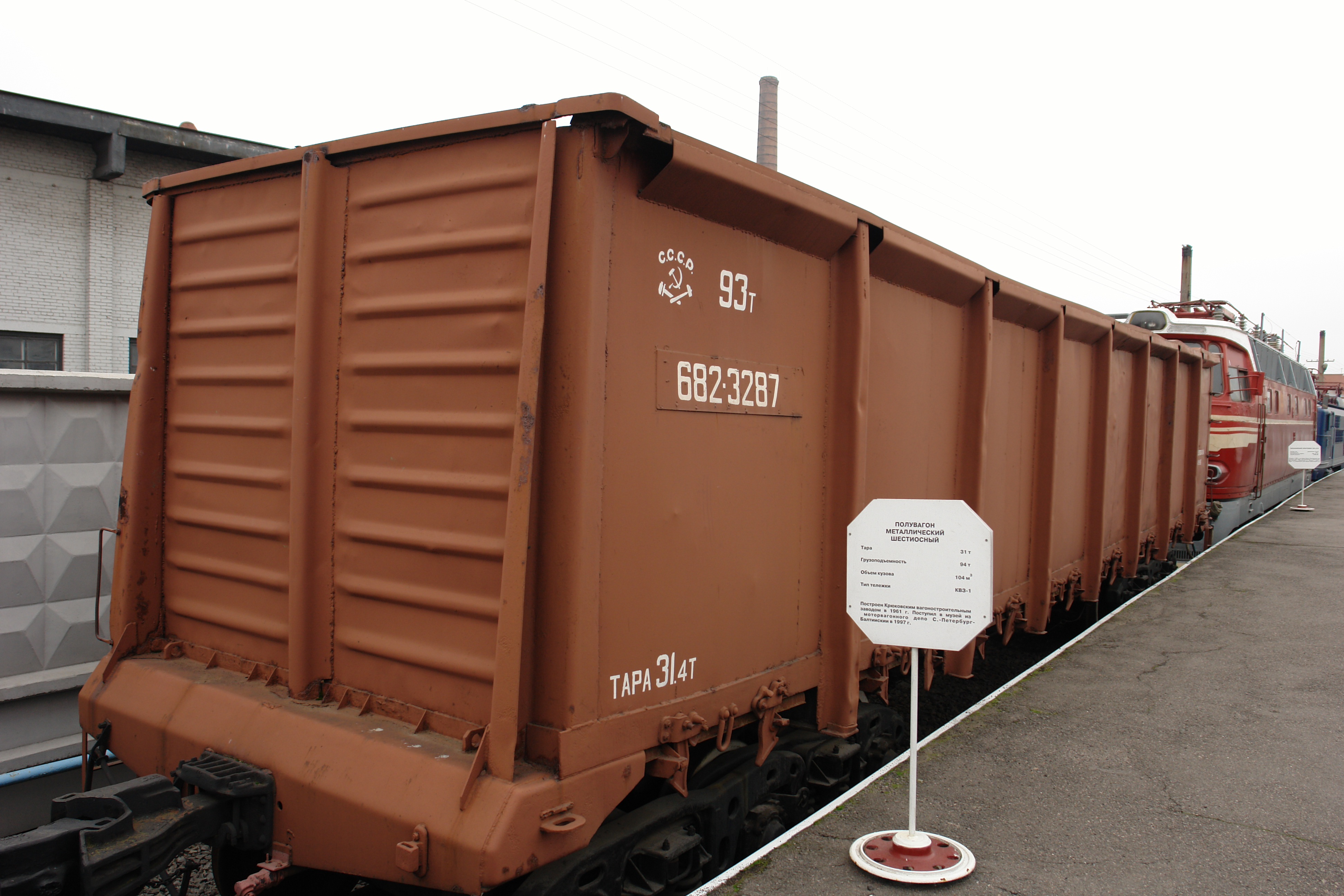 6-axle metal open wagon Tare weight31t.Load capacity94 tBody volume104 m3Bogie typeKVZ-1 Built by the Kriukovo Wagon-building Works in 1961, Received by the museum from the St.Petersburg-Baltiiskii electric train depot of the October Railway in 1997.